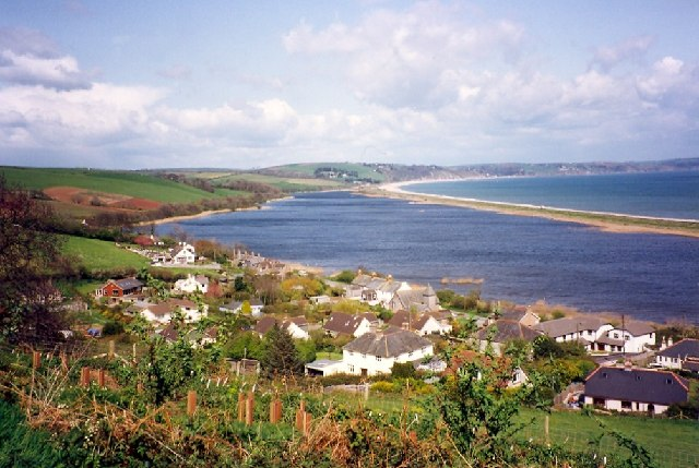 Torcross and Slapton Ley, Stokenham. This is the view from the minor road high up above the village, just before it dives down steeply. The subject NGR is for the church, just to the right of the centre of the picture. Taken in 1992.